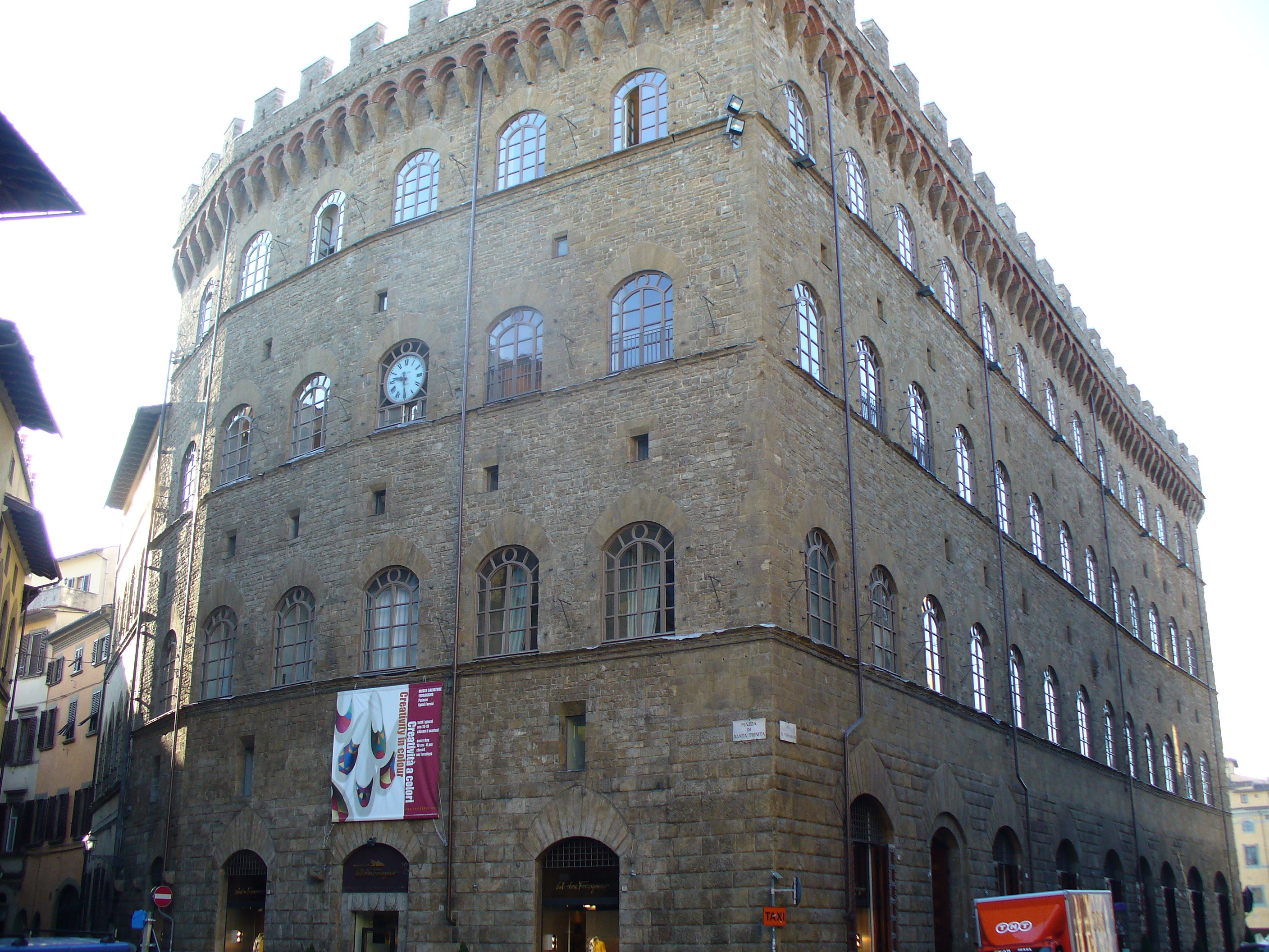 Palazzo Spini Feroni